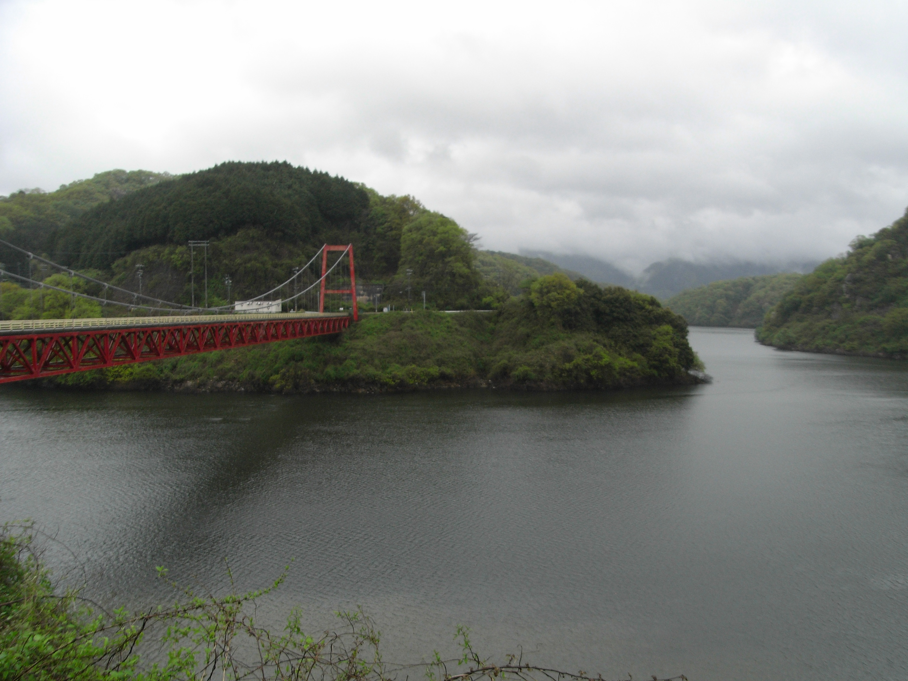 Lake Tsukigaseko(Nabarigawa river/Kyoto Pref.and Mie Pref./Japan)